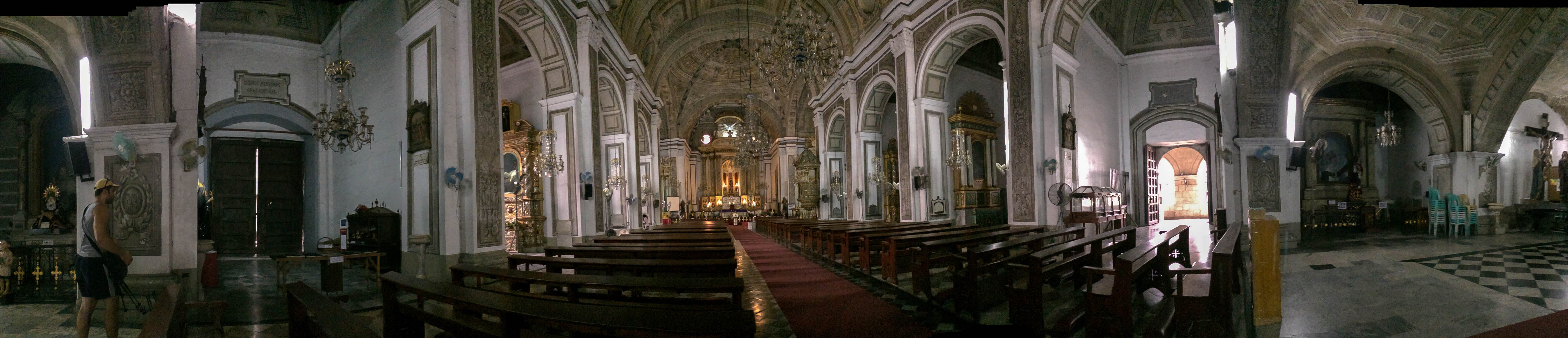 Panoramic of the interior of the San Agustin Church in Manila, Philippines.